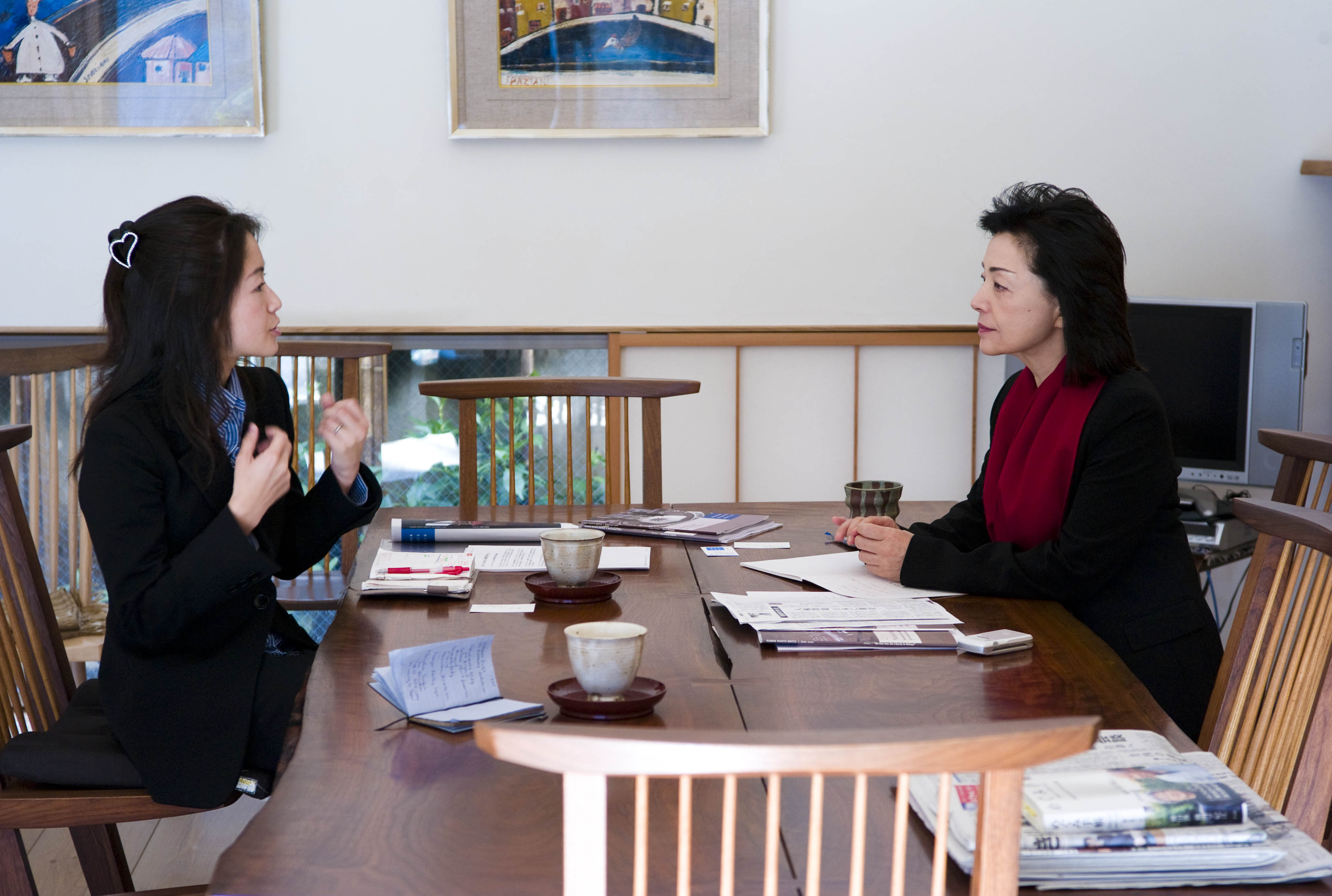 Kanae Doi and Yoshiko Sakurai (Talking about Human Rights)